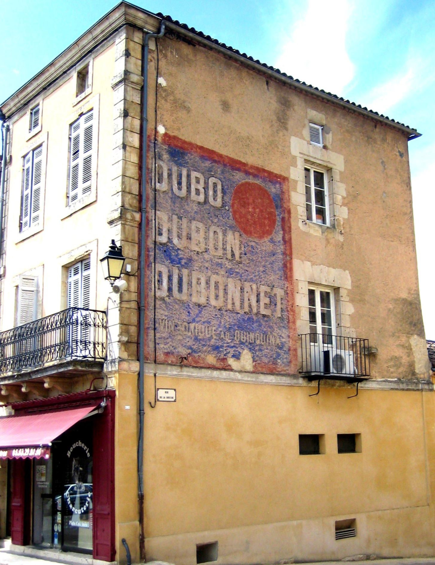 Dubonnet ad in Belvès, Dordogne, France.